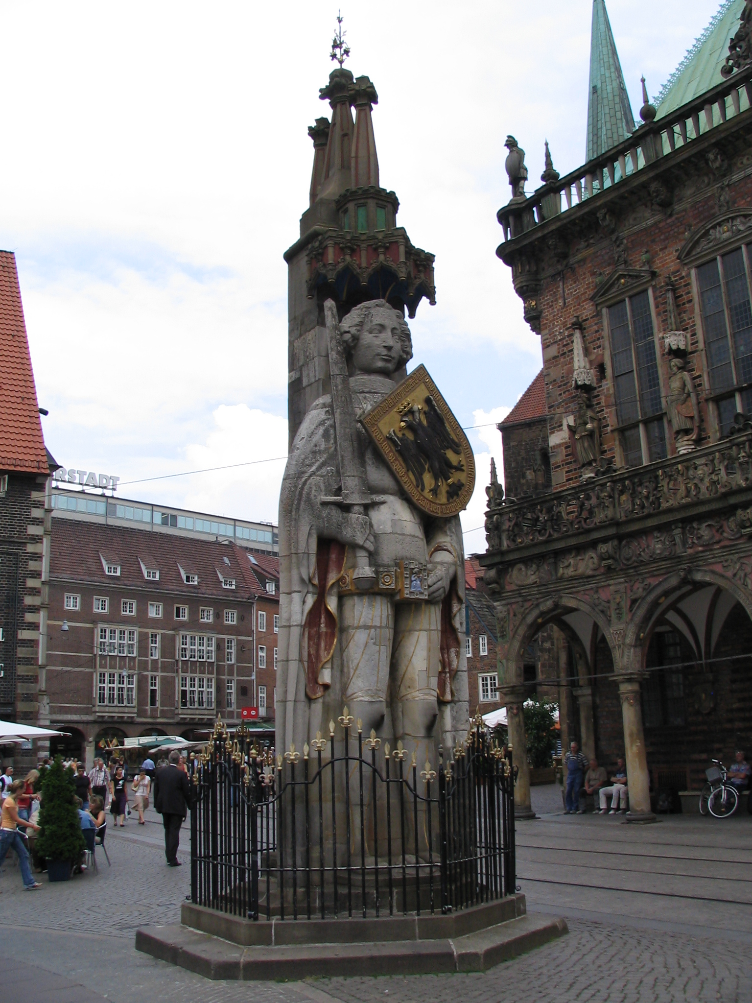 Statue of Roland, Bremen Market Square